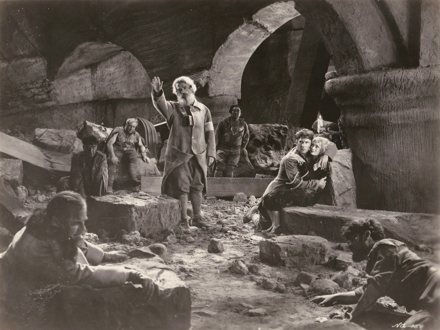 Paul McAllister (center), George O'Brien & Dolores Costello (right) in Noah's Ark - publicity still (cropped : see source)